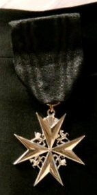 The insignia of a Serving Brother of the Most Venerable Order of the Hospital of Saint John of Jerusalem. I took this at the recent investiture service of the Priory of the United States of America in St Louis Missouri.